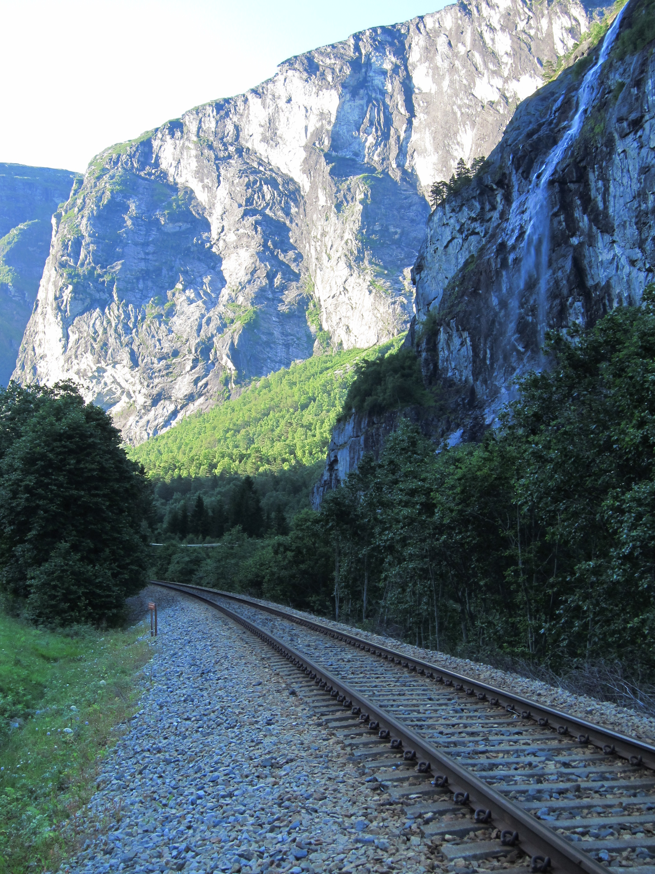 Rauma railway between Foss and Flatmark